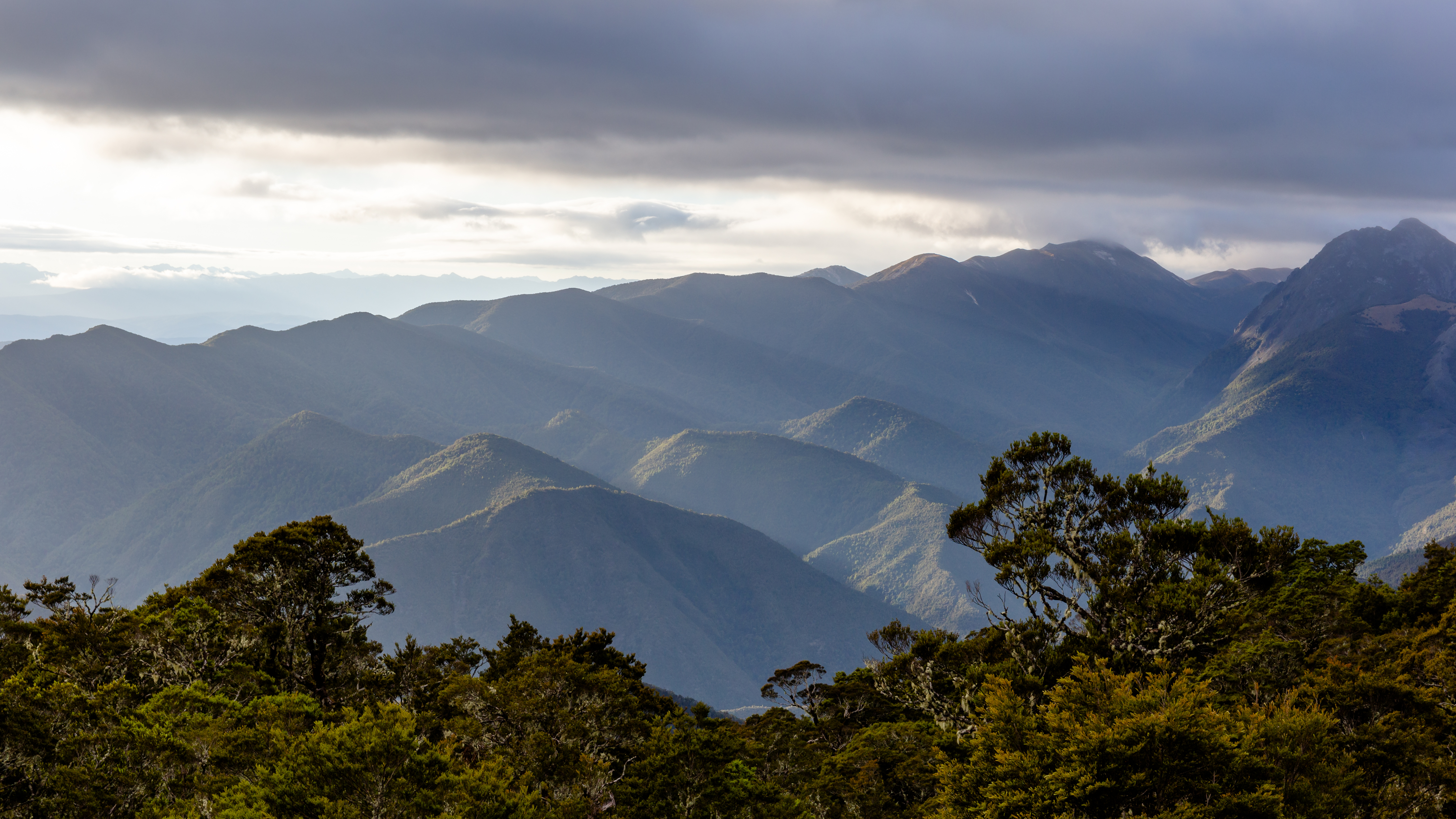 View towards Lookout Range from John Reid Hut, Kahurangi, New Zealand